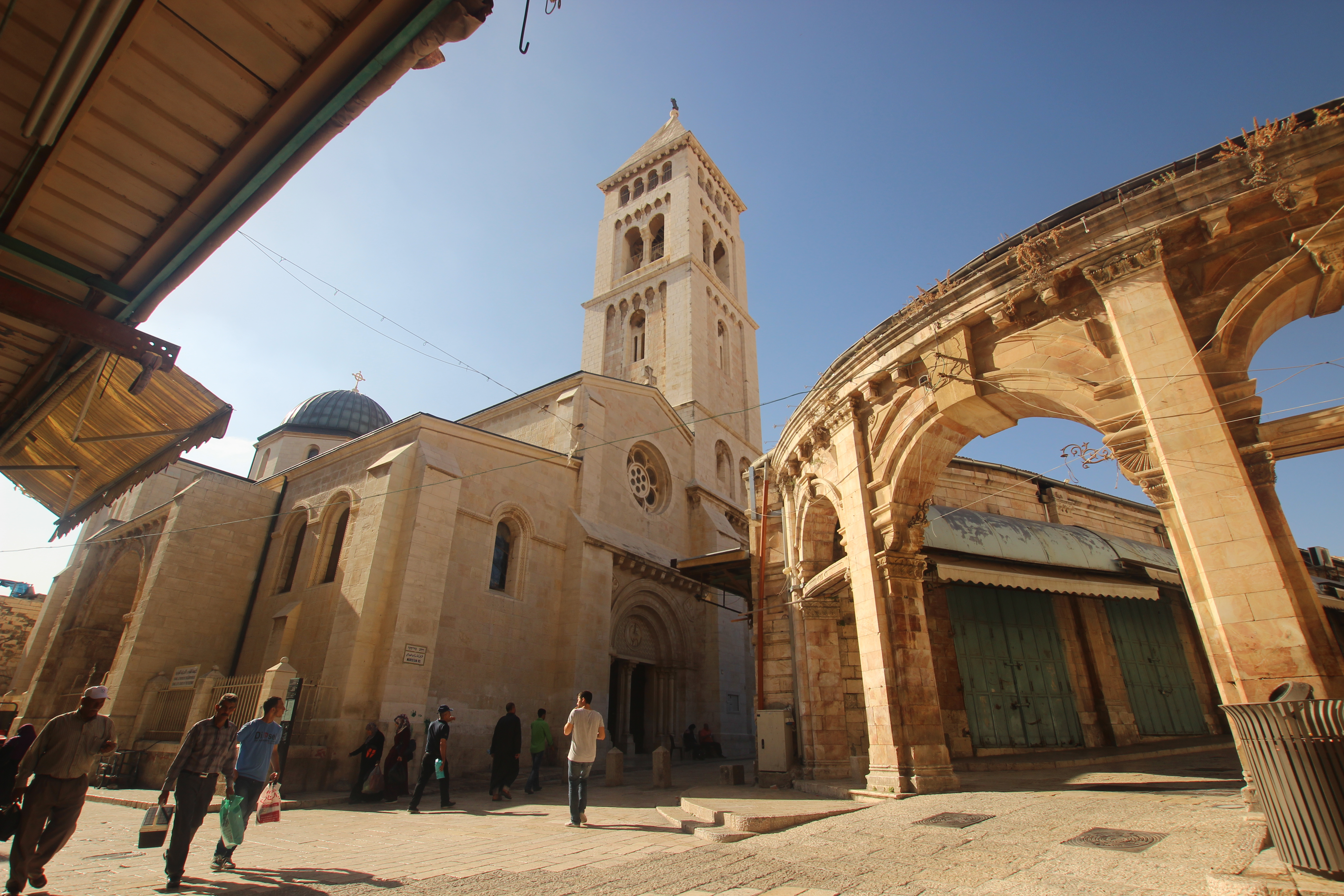 Lutheran Church of the Redeemer, Jerusalem